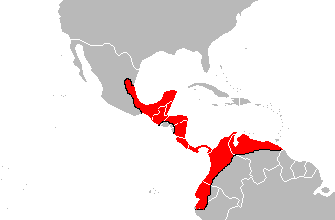 Bothrops asper, Area. Made by user Accipiter (R. Altenkamp), based on Campbell & Lamar 2004: The Venomous Snakes of the Western Hemisphere